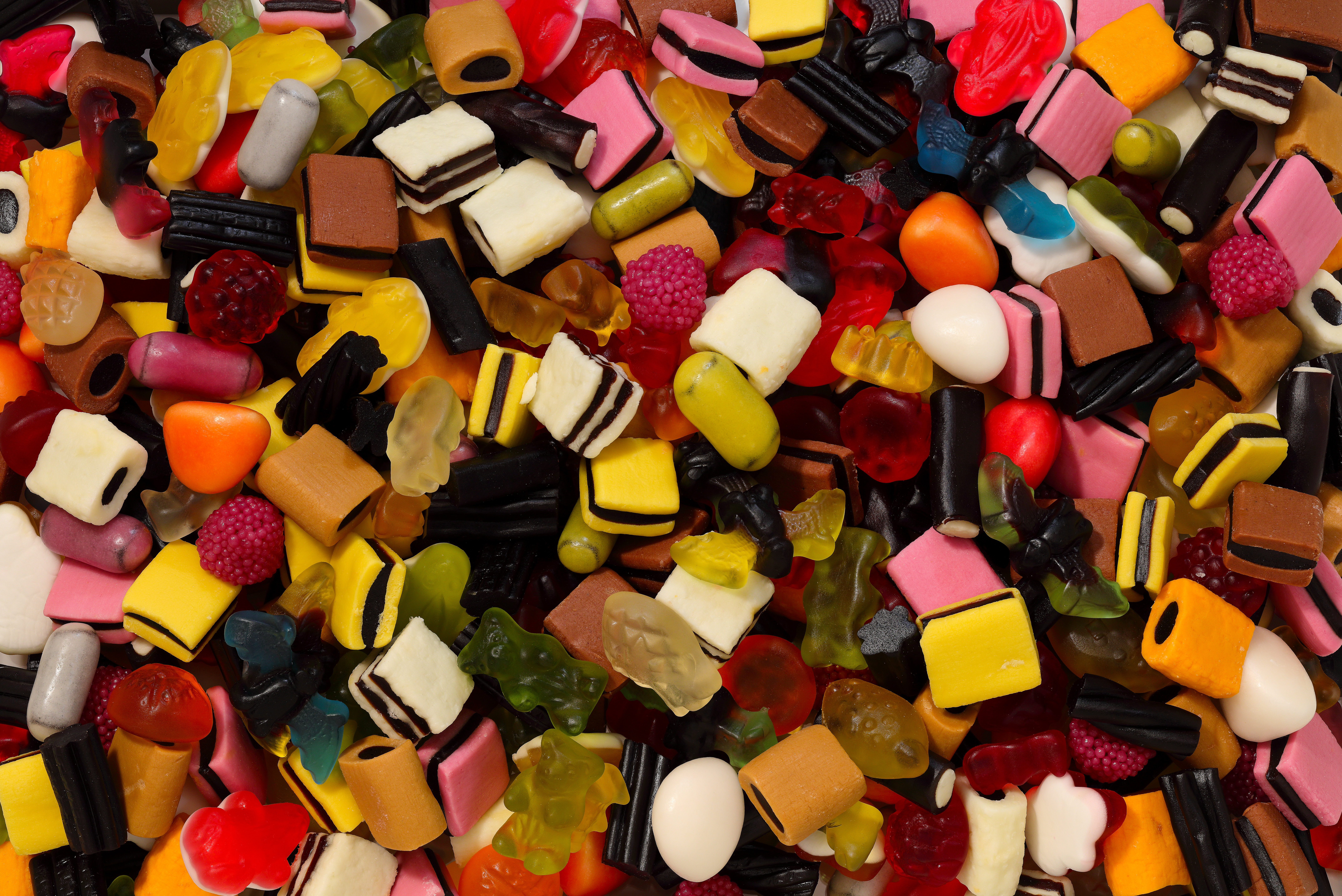 Assortment of German fruit gum, caramel and liquorice confectionery, "Haribo Color-Rado".